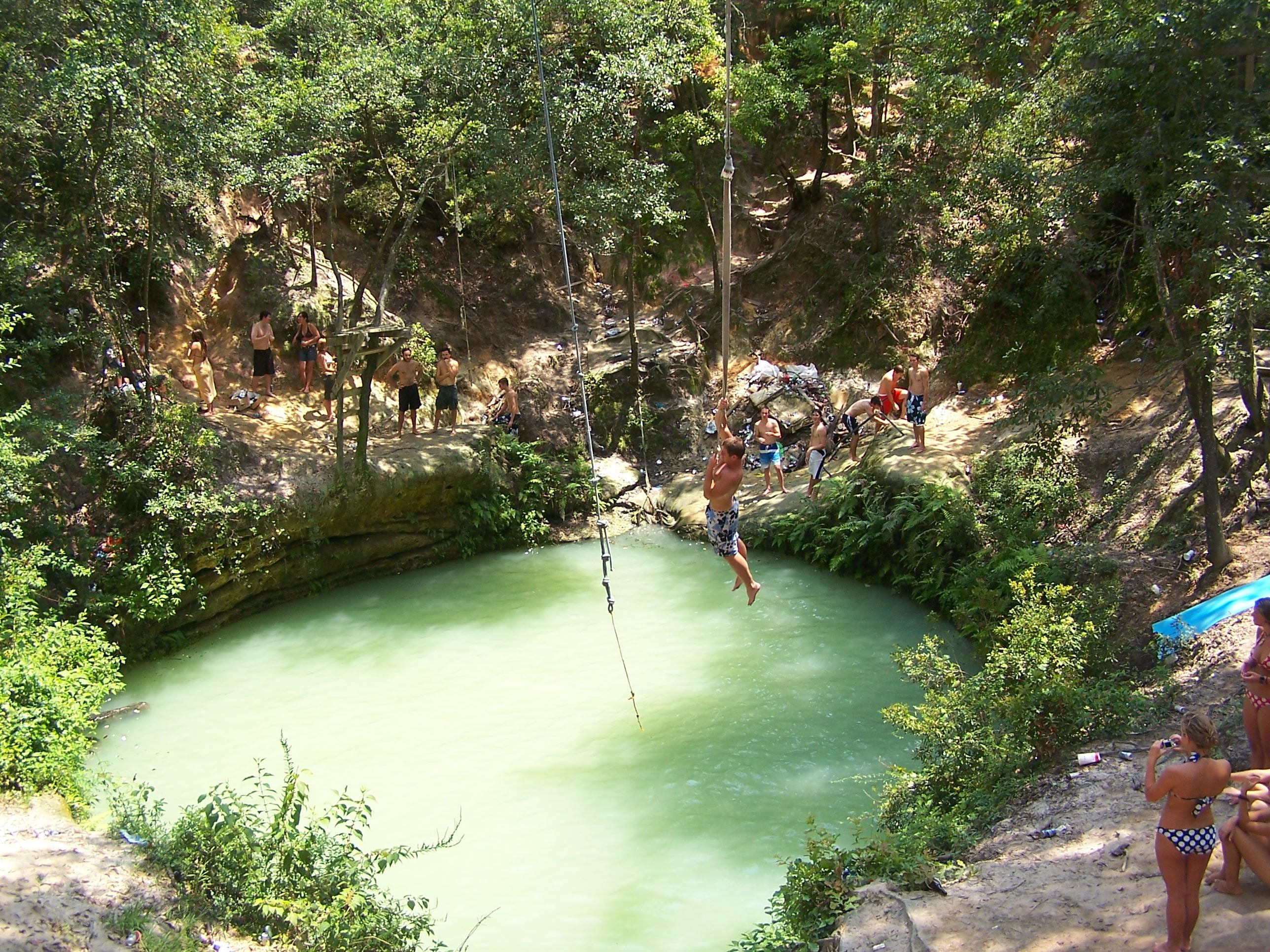 the name is the devil's sinkhole This was the original site for a limestone dig near Hawthorne, Florida. The Devil's Hole (sometimes referred to as the "Devil's Toilet Bowl" by the locals) is a fun spot for an afternoon dip. There is a rope swing, and two stands to jump from.